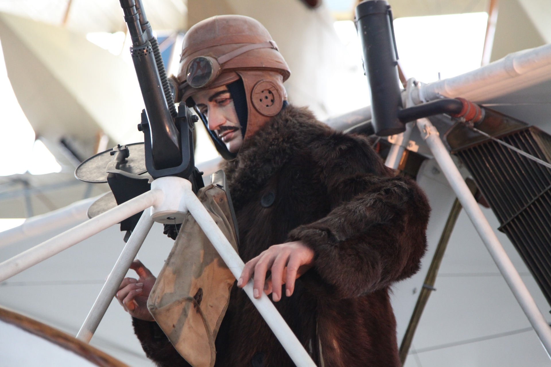 LAS Voisin, 1915, mission preparation - WW1 - Museum of Air and Space - Le Bourget - France